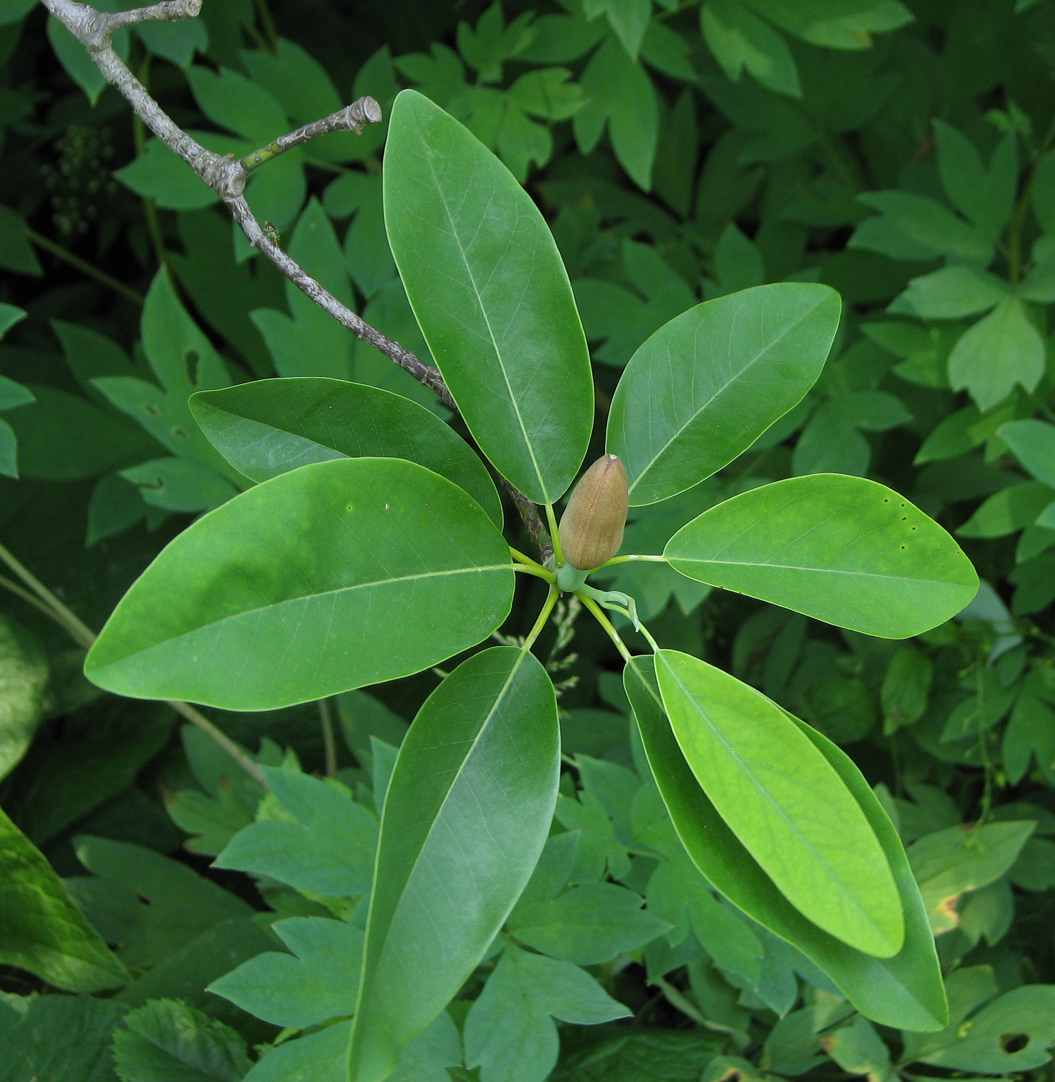 Picture of the flower on the Sweetbay Magnoliaen (Magnolia virginiana en . Photo taken in the near the Tennis Court Garden at the Chanticleer Garden where the species was identified.